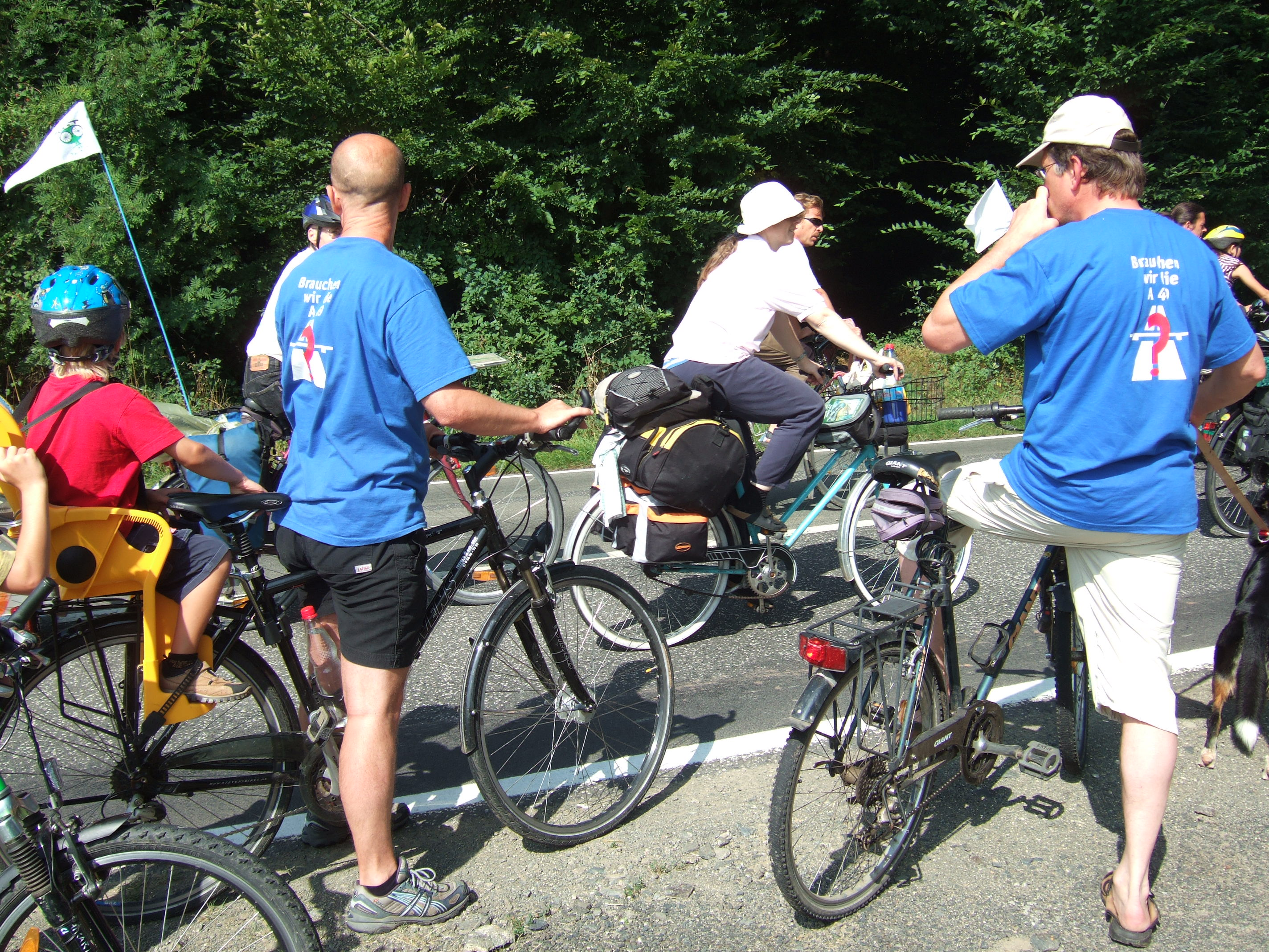 Demonstration during the Tour de Natur 2008 between Michelsberg (Schwalmstadt) and Dorheim (Neuental), Germany